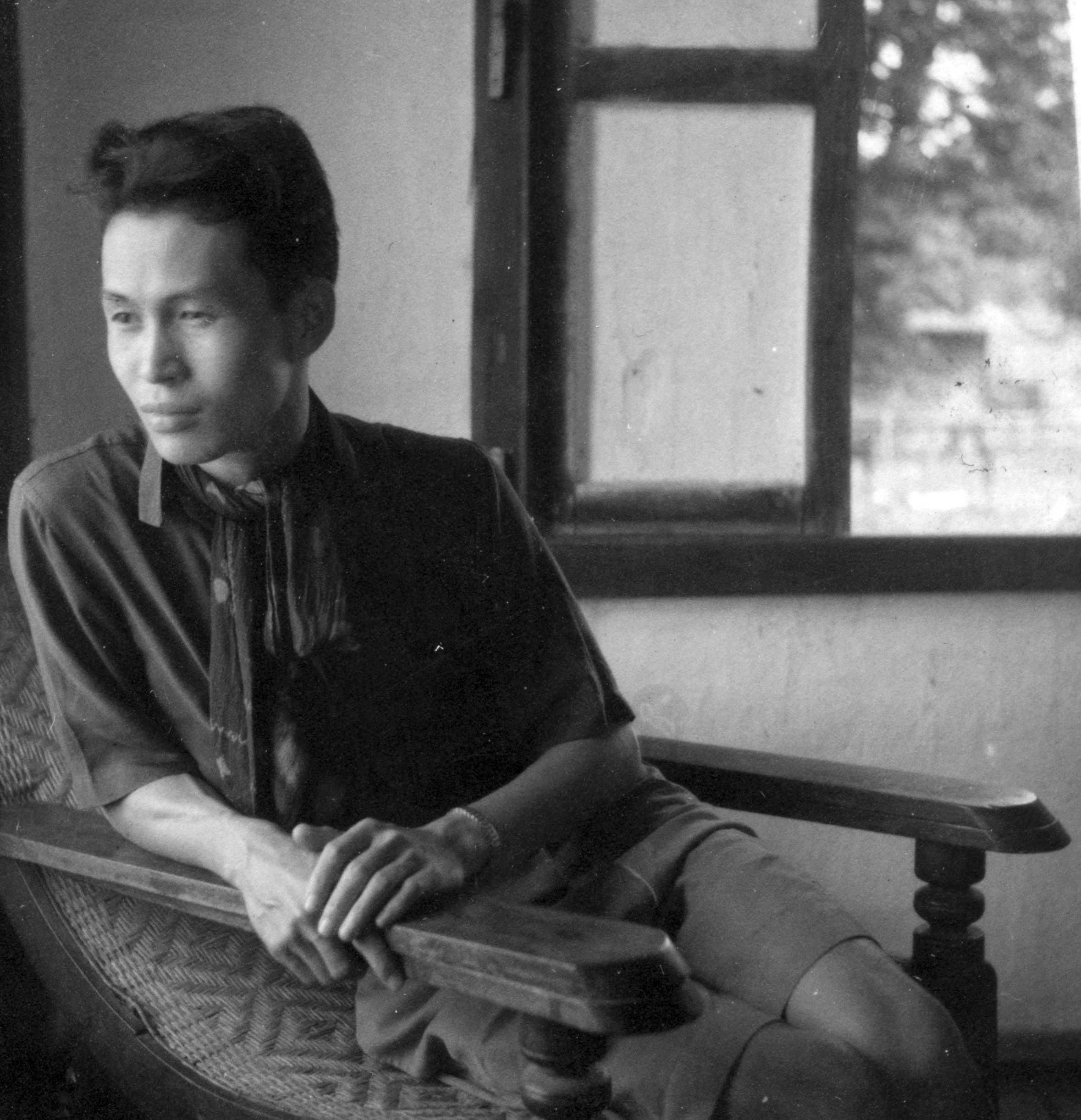 Sai Saimong